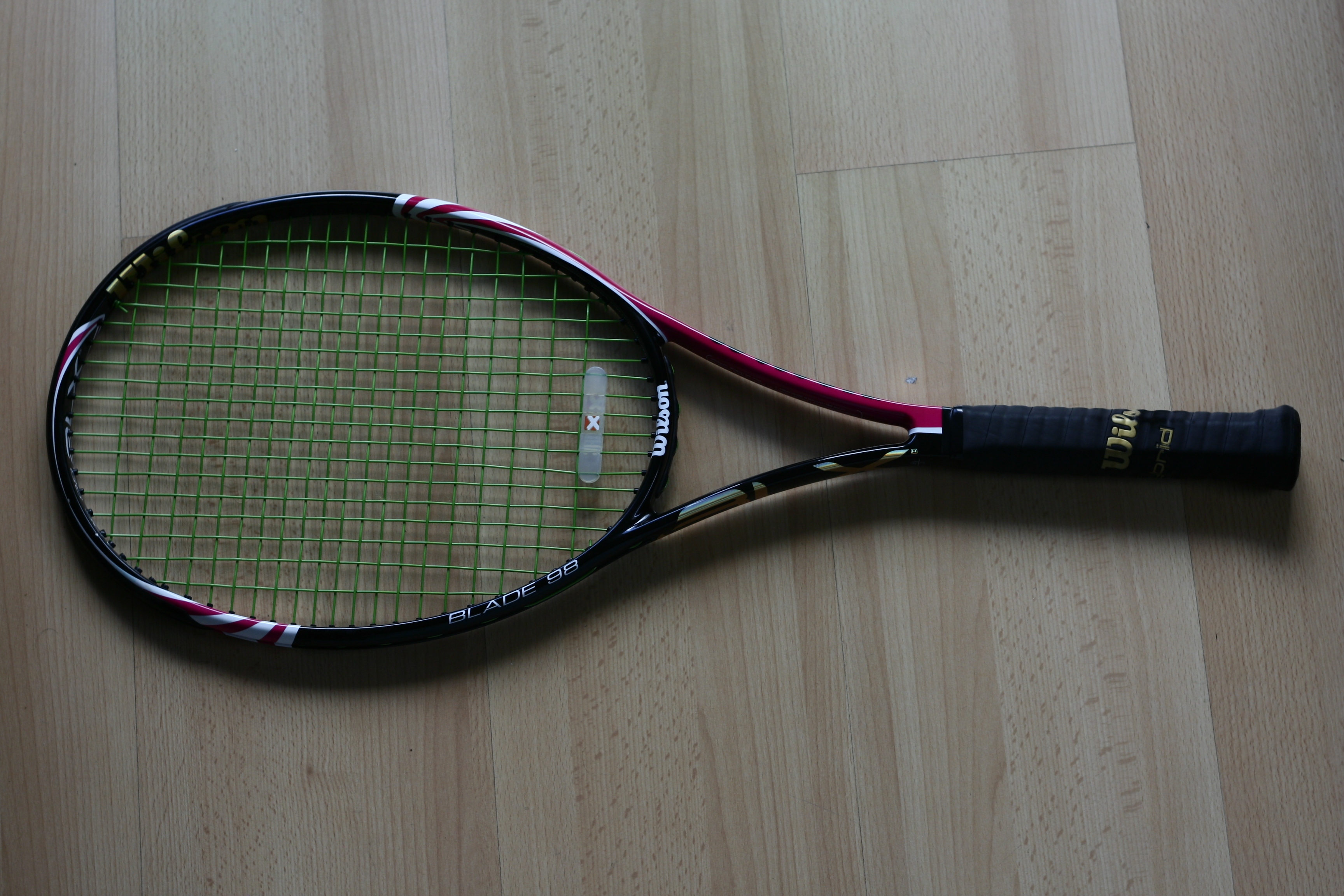 Wilson Blade 98 Pink Tennis Racquet with vibrastoper and prince beast xp strings.